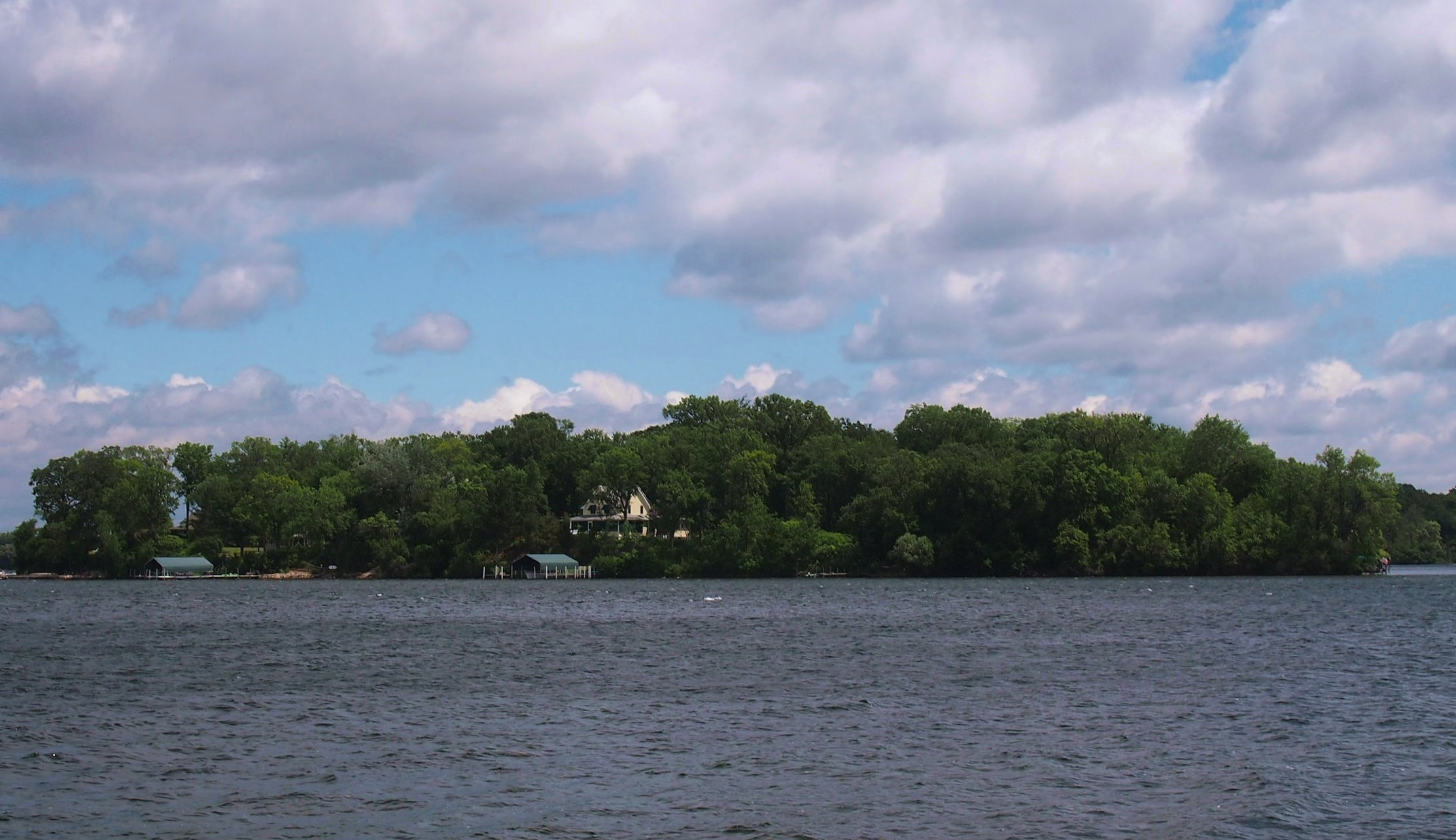 Crane Island in Lake Minnetonka from the boat launch in Lake Minnetonka Regional Park, Minnetrista, Minnesota, USA.